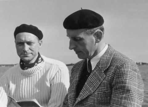 Photograph of the German arms dealer Willi Daugs (1893–?) and artist Otto Ehrich (1897–1988) in Finland.